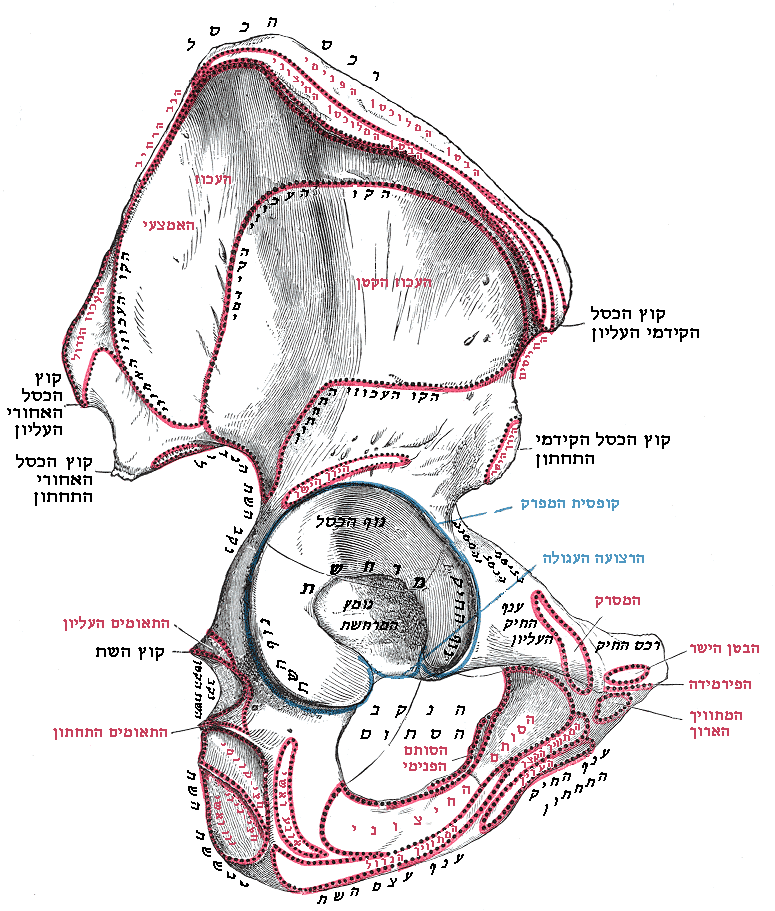 Right Os Innominatum, external surface.